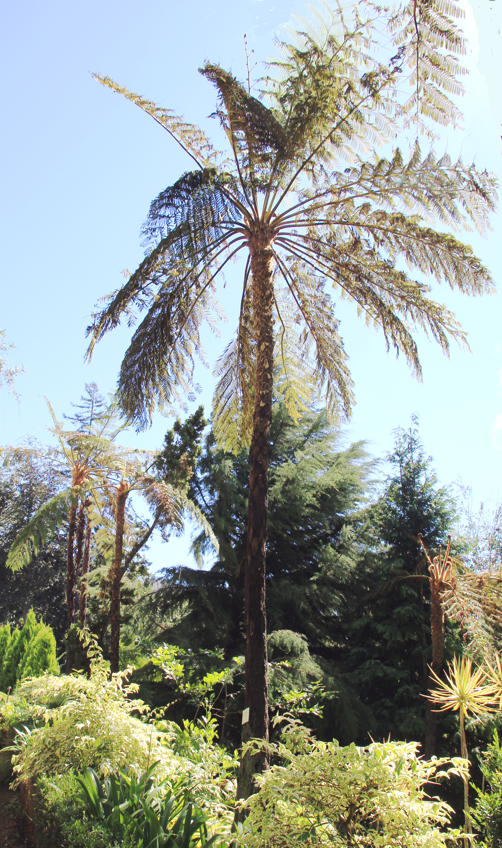 Tree fern Cyathea cooperi in Monte Palace Tropical Garden in the city Funchal, Madeira